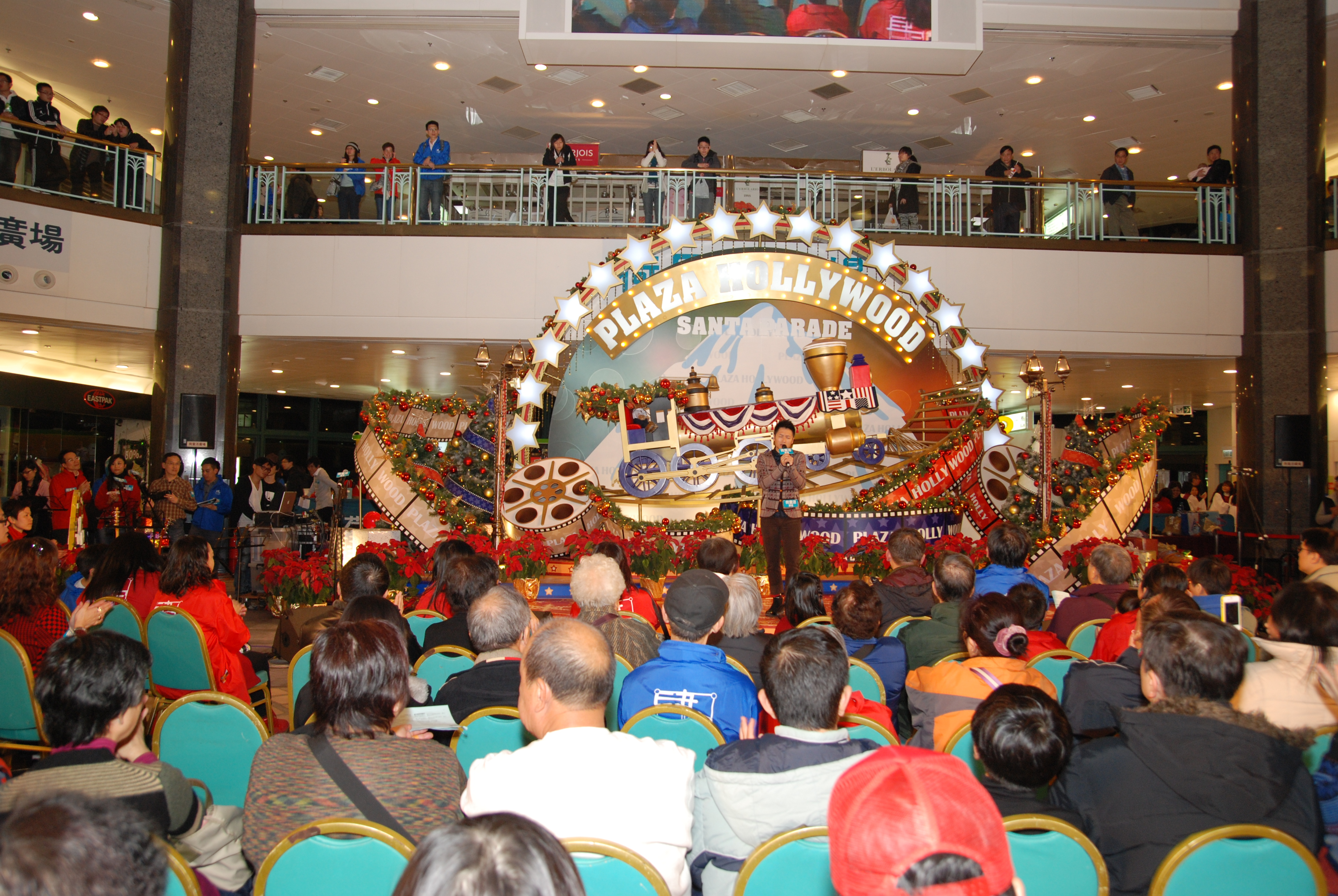 Christmas Eve event at Plaza Hollywood by EFCC Canaan Wendell Memorial Church